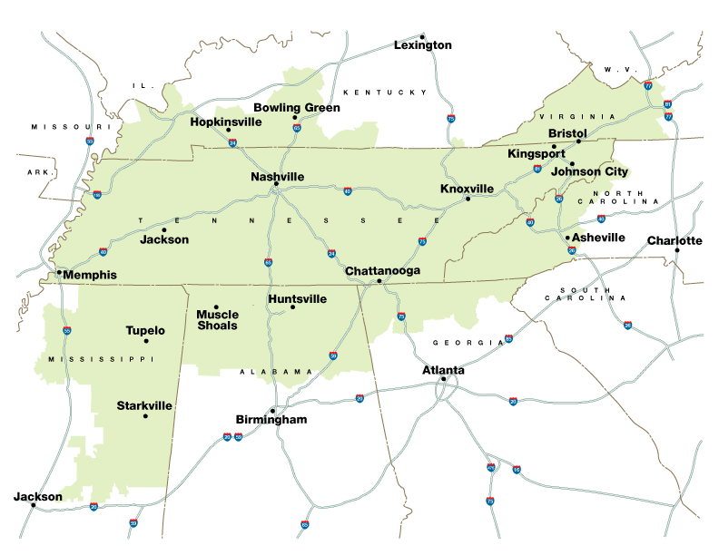 TVA service area